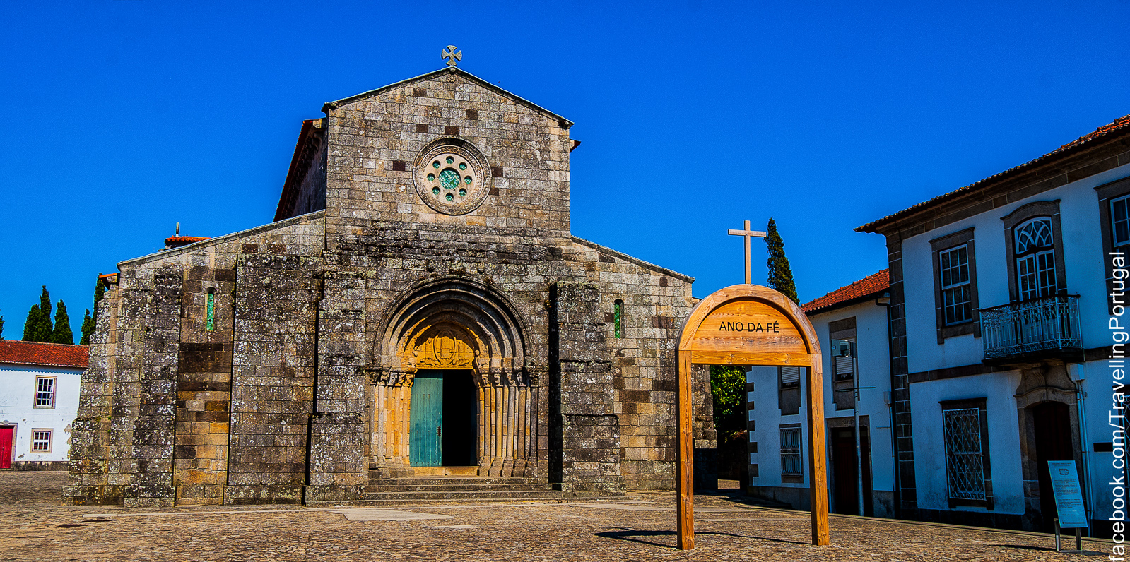 Romanesque church of Sao Pedro de Rates, Povoa de Varzim